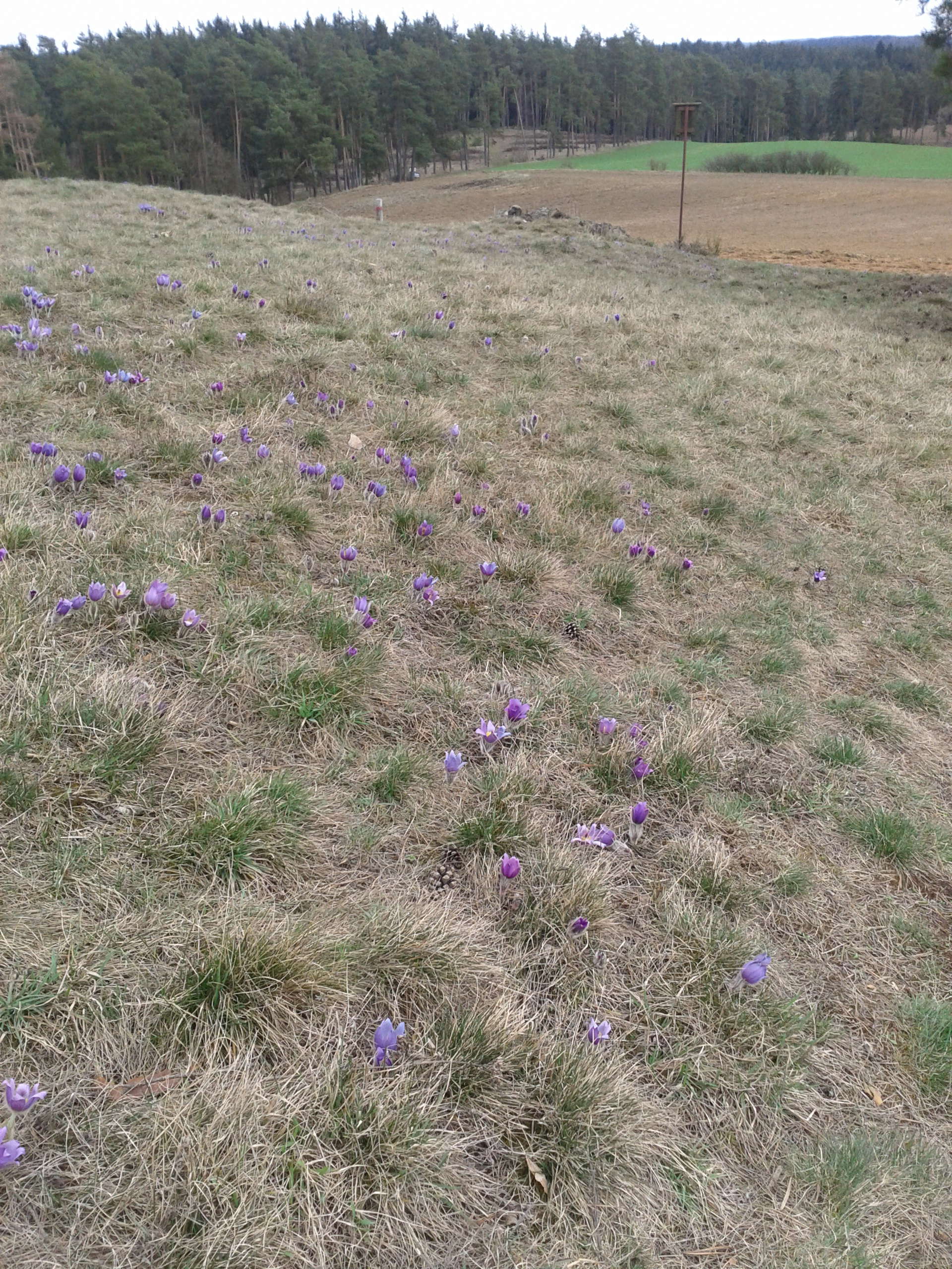 Pulsatilla grandis in natural monument Ptáčkovský kopeček in Třebíč District, Czech Republic